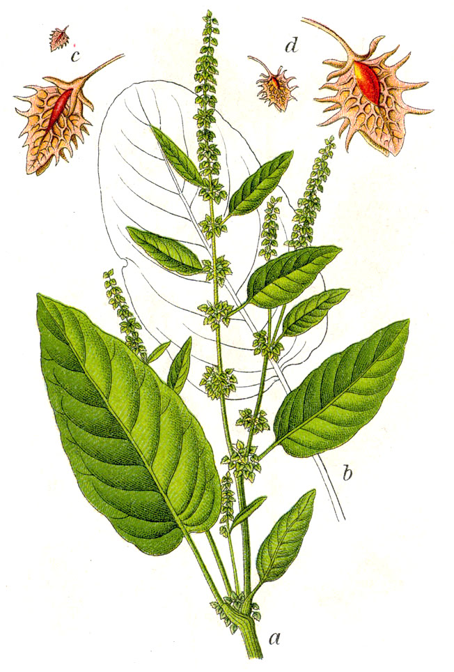 Rumex obtusifolius L. Original Caption Butter-Ampfer, Rumex obtusifolius